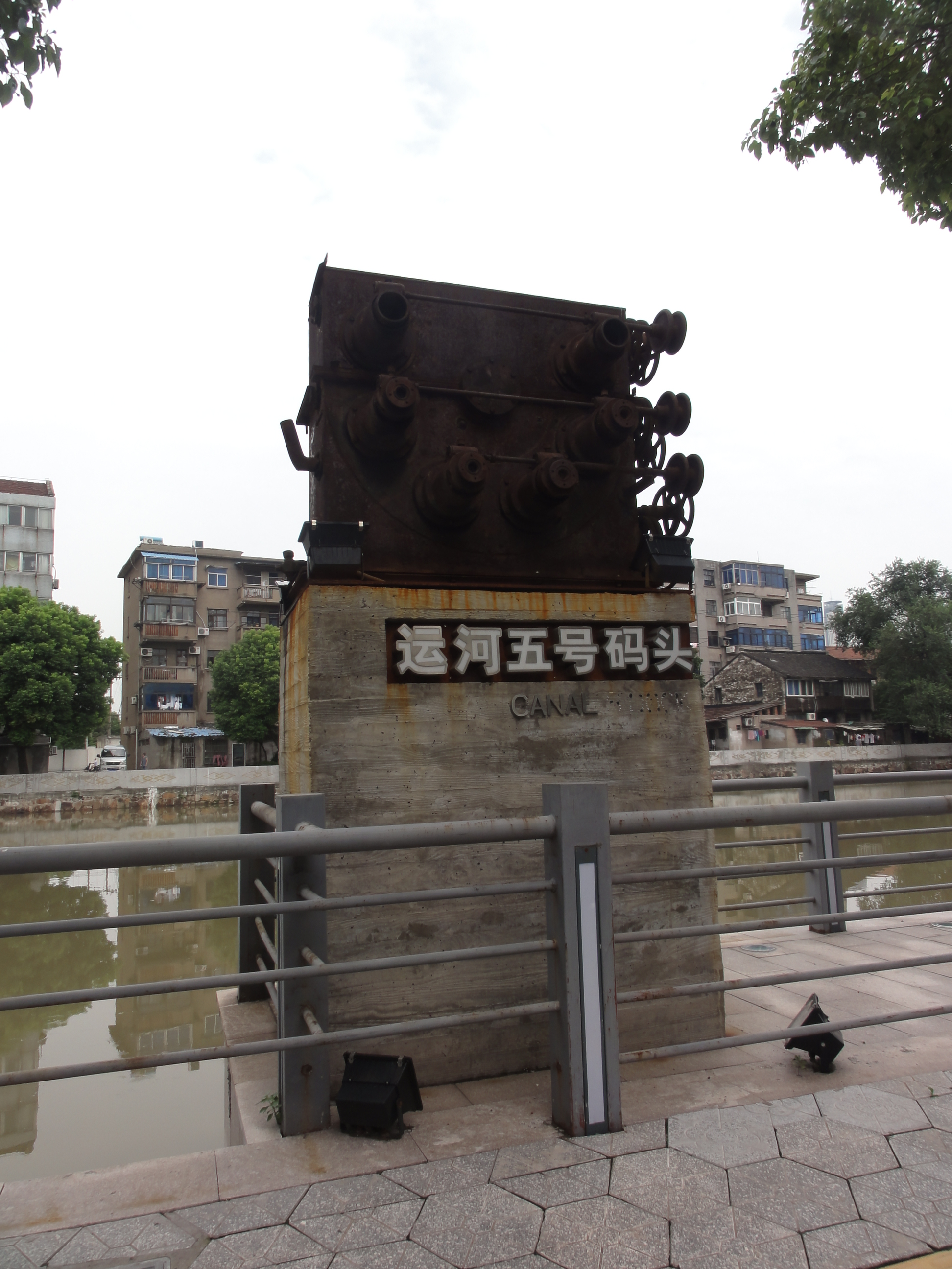 this is the photo i took in changzhou